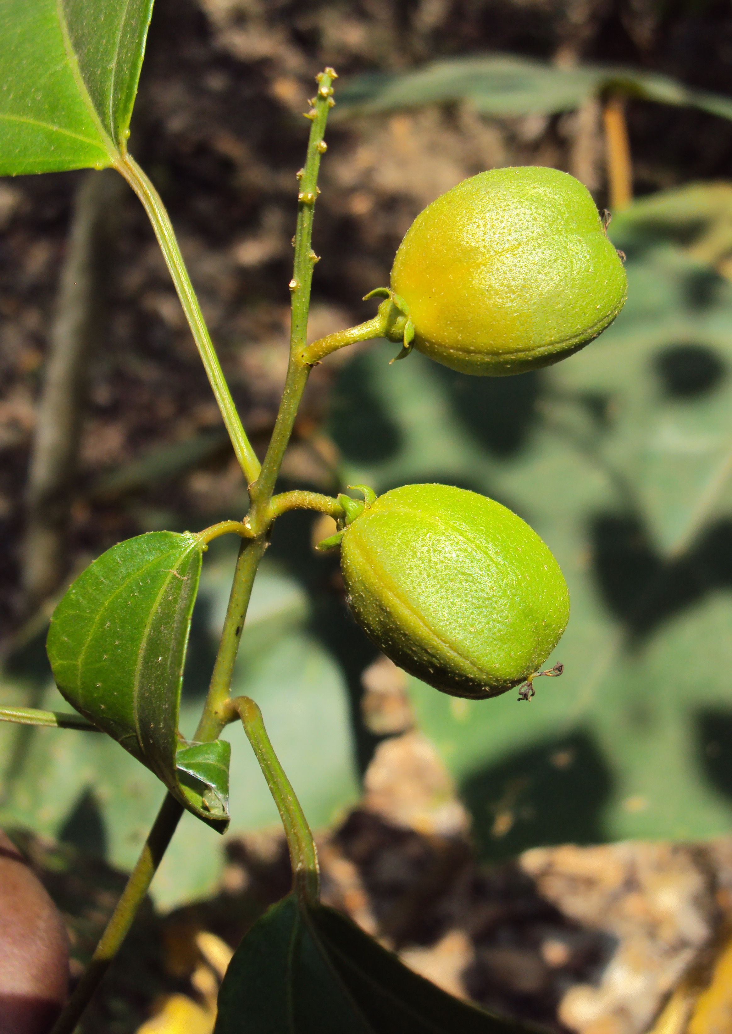 Croton tiglium